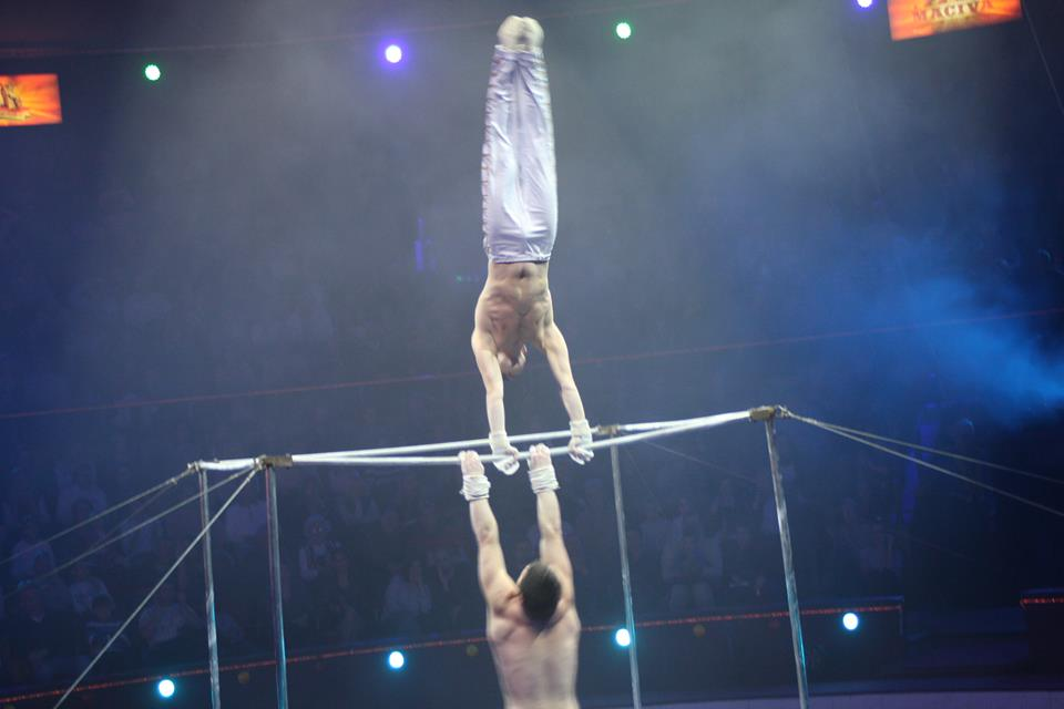 Troupe Zhuk in 10th International Circus Festival of Budapest.